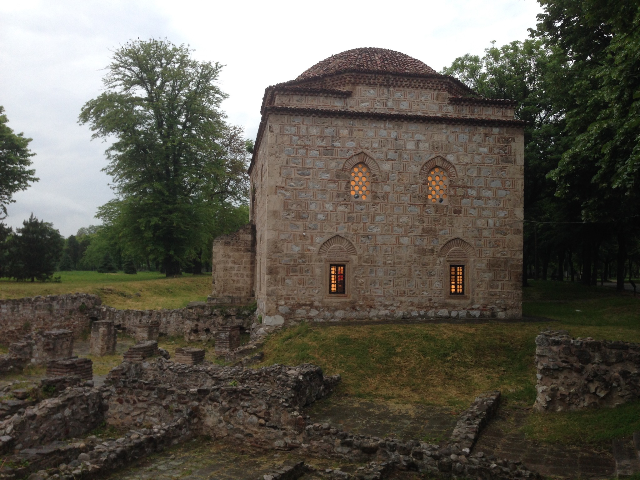 The Gallery of Contemporary Fine Arts Niš-Salon 77, Bali-begova mosque, Niš, Serbia